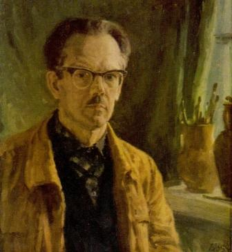 Viktorov self-portrait